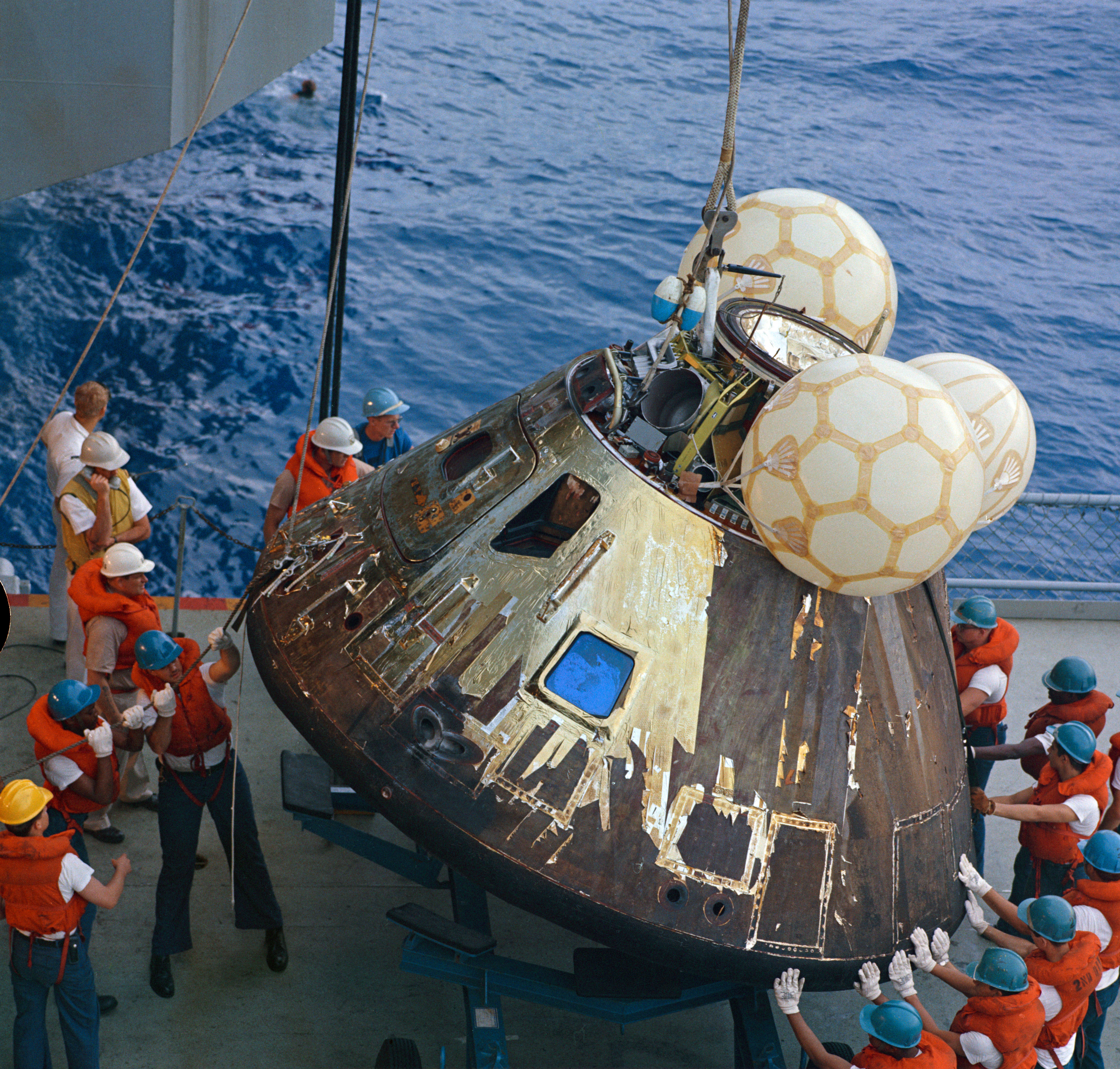 Crewmen aboard the USS Iwo Jima, prime recovery ship for the Apollo 13 mission, guide the Command Module (CM) atop a dolly onboard the ship. The CM is connected by strong cable to a hoist on the vessel. The Apollo 13 crewmembers, astronauts James A. Lovell Jr., commander; John L. Swigert Jr., command module pilot; and Fred W. Haise Jr., lunar module pilot, were already aboard the USS Iwo Jima when this photograph was made. The CM, with the three tired crewmen aboard, splashed down at 12:07:44 p.m. (CST), April 17, 1970, only about four miles from the recovery vessel in the South Pacific Ocean.